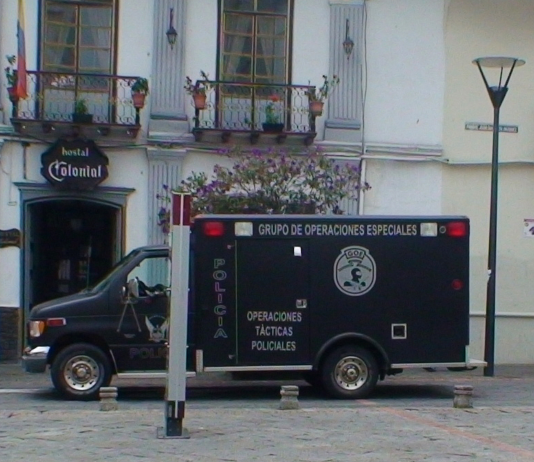 A vehicle of the GOE of the National Police of Ecuador.